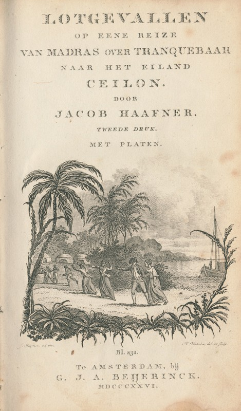 Cover of "Lotgevallen op eene reize van Madras over Tranquebar naar het eiland Ceylon" (1826).